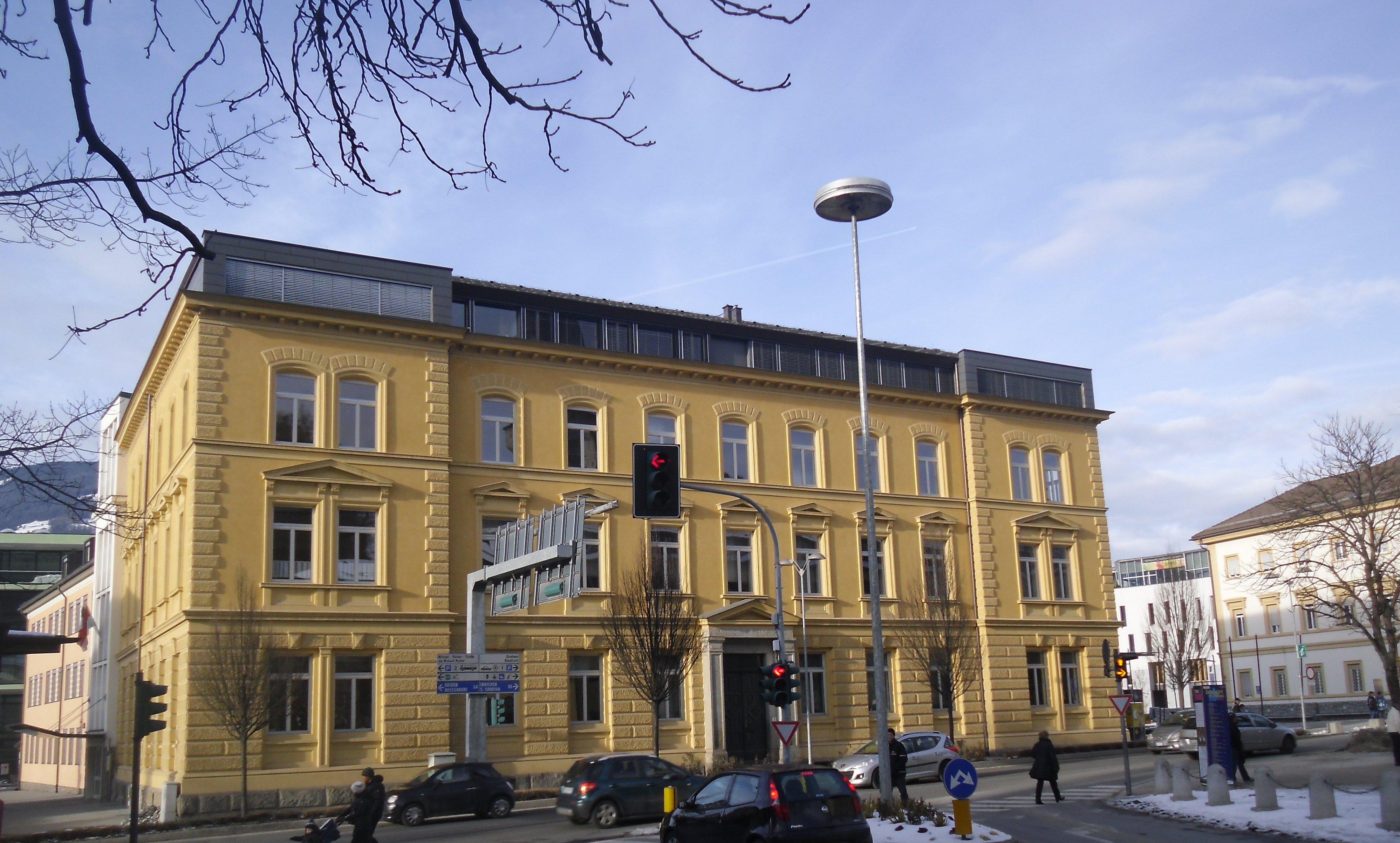 Karl-Meusburger-Schule, Graben 1, Bruneck